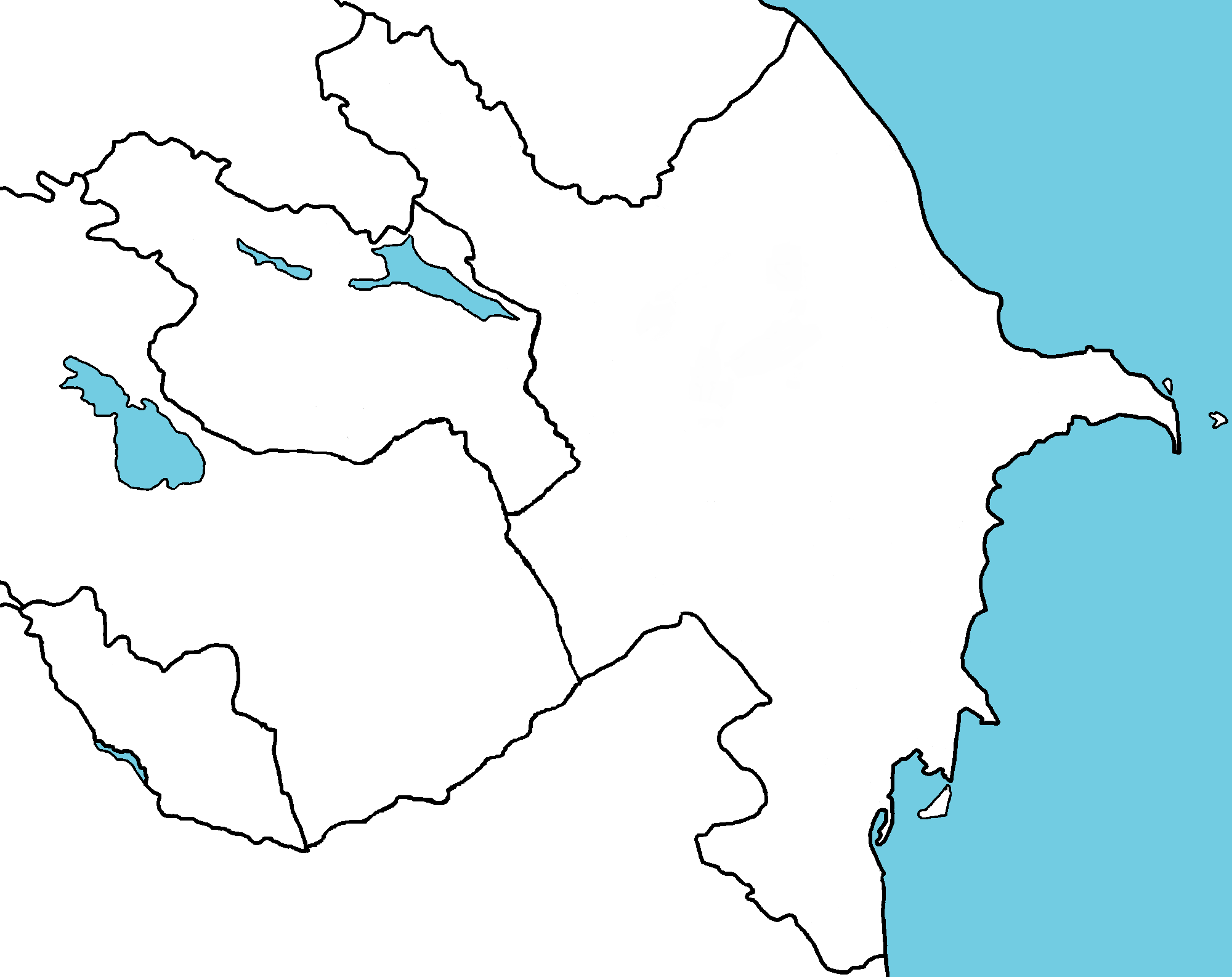 Northern Artsakh on Azerbaijan district map for Armenian wikipedia